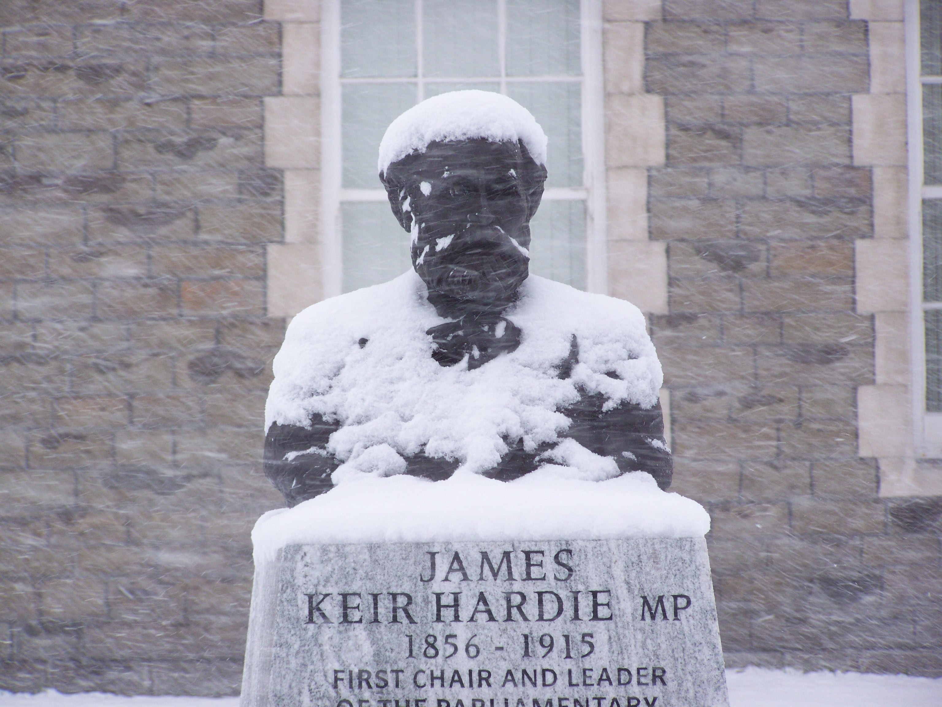 JAMES KEIR HARDIE bust in Aberdare, Wales, U.K.